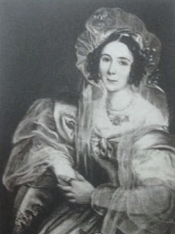 Maria Dorothea Margaretha van Anrep (1797—1839)